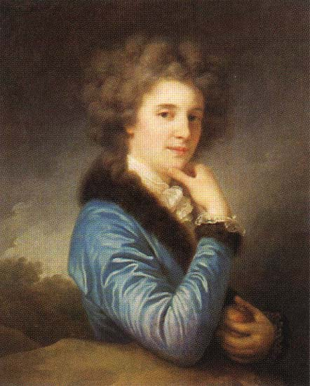 Portrait of Zofia Potocka (1760-1822)